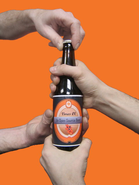 Vores Øl, later known as free beer